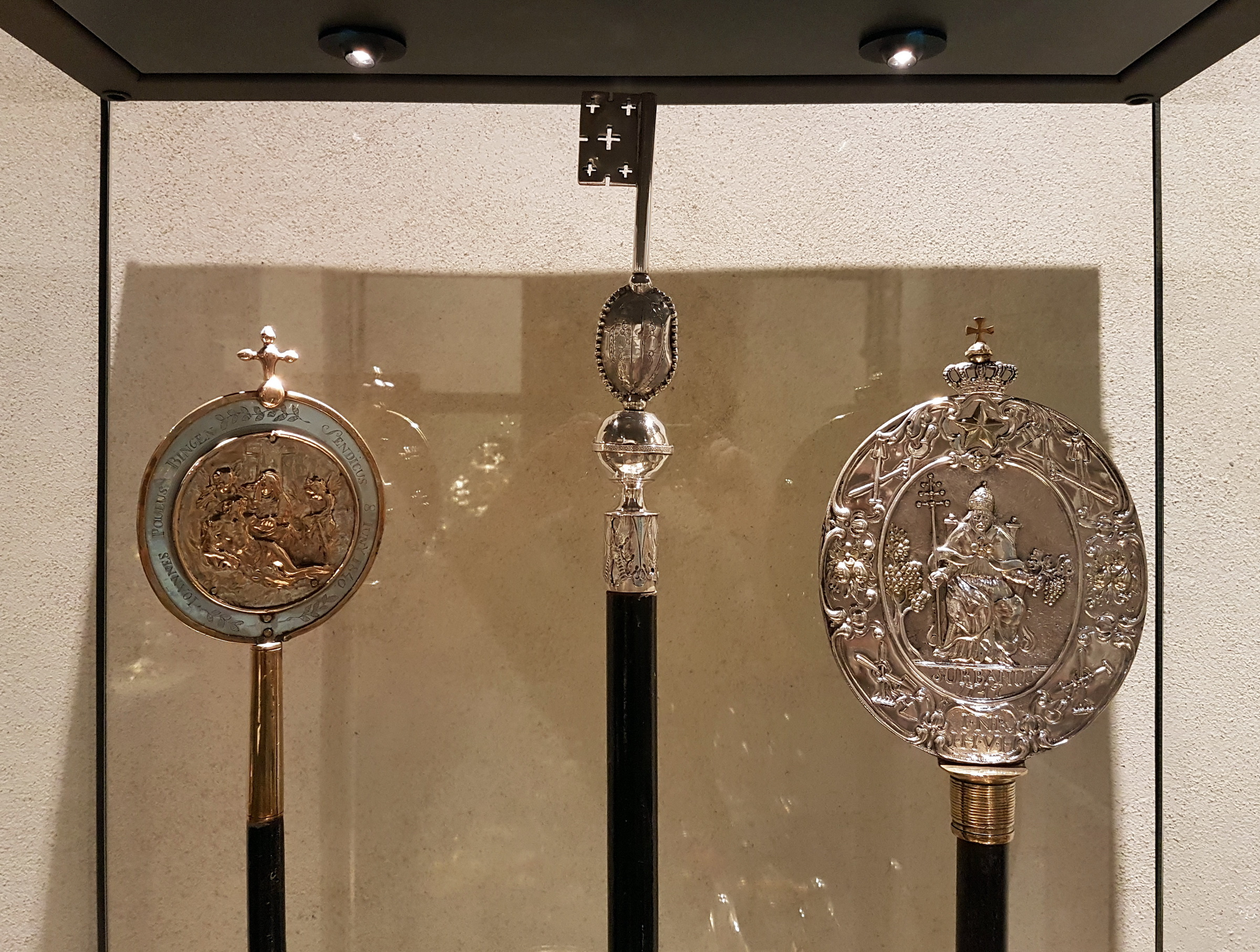 Details of three fraternity staffs in the collection of the Treasury of the Basilica of Saint Servatius in Maastricht, the Netherlands. The one on the left carries the date 8 June 1840. The one in the middle has a representation of the key of Saint Servatius. To the right the fraternity staff of the gardeners' guild, dedicated to Saint Urbanus (J. Wery, Maastricht, 1747).